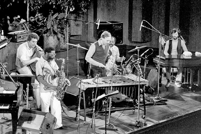 Roy Haynes Quintet at radio KJAZ Festival, Davies Symphony Hall, San Francisco 1981. l-r: Miroslav Vitous, b; Joe Henderson, TS; Gary Burton, vibes; Roy Haynes, d; Chick Corea, p. Photo: Brian McMillen /